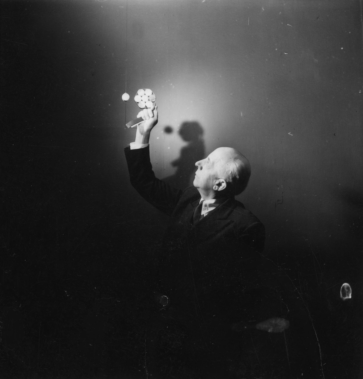 C1770. Torsten Wilner performing one of their experiments at Atomariet at the Museum of Science and Technologi in Stockholm, Sweden.